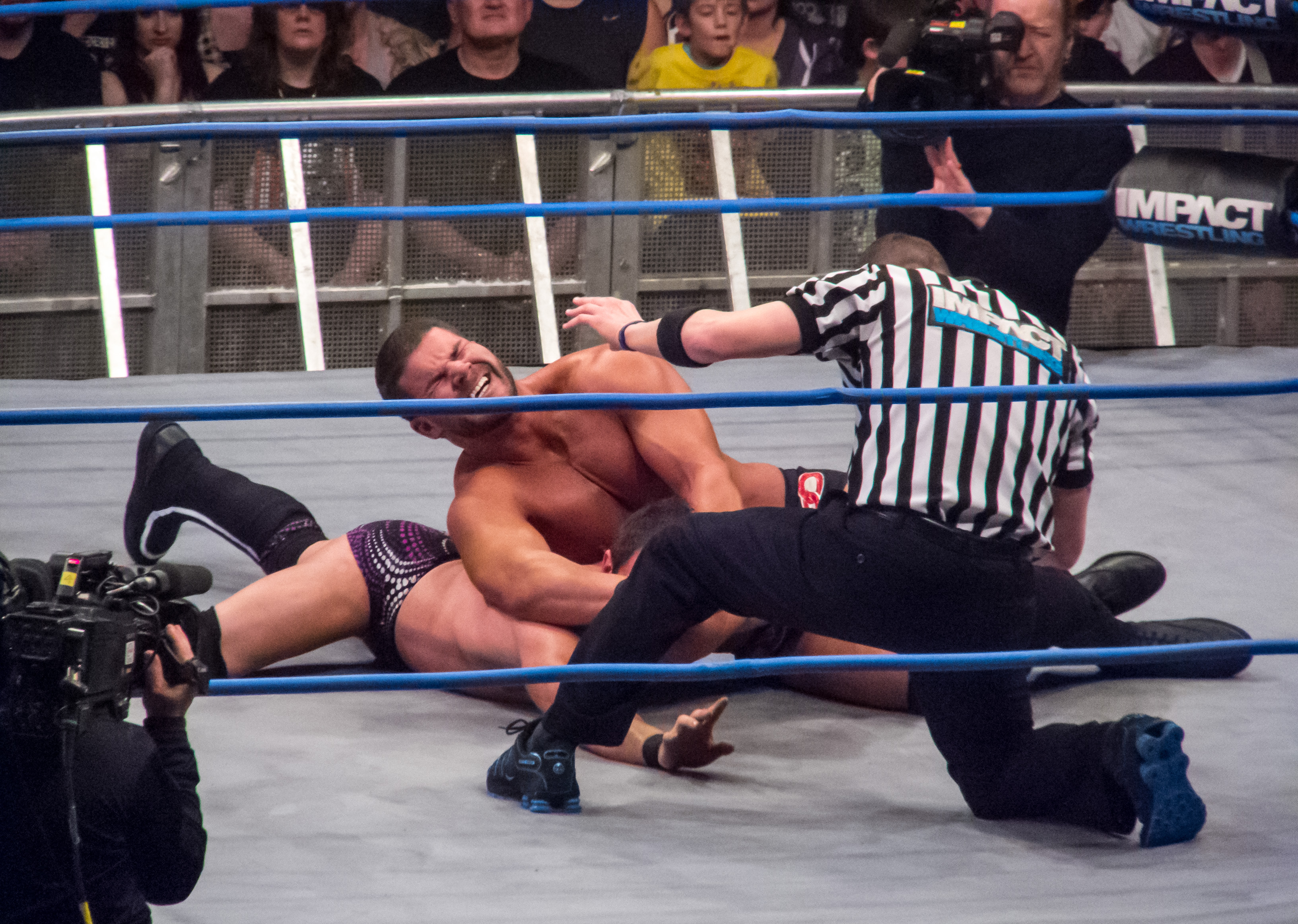 Bobby Roode puts Austin Aries in the crossface hold at the Impact! TV Tapings in Wembley, England on January 26, 2013.